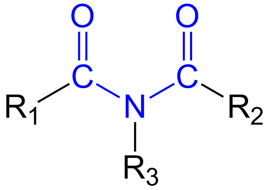 Imide: General structure